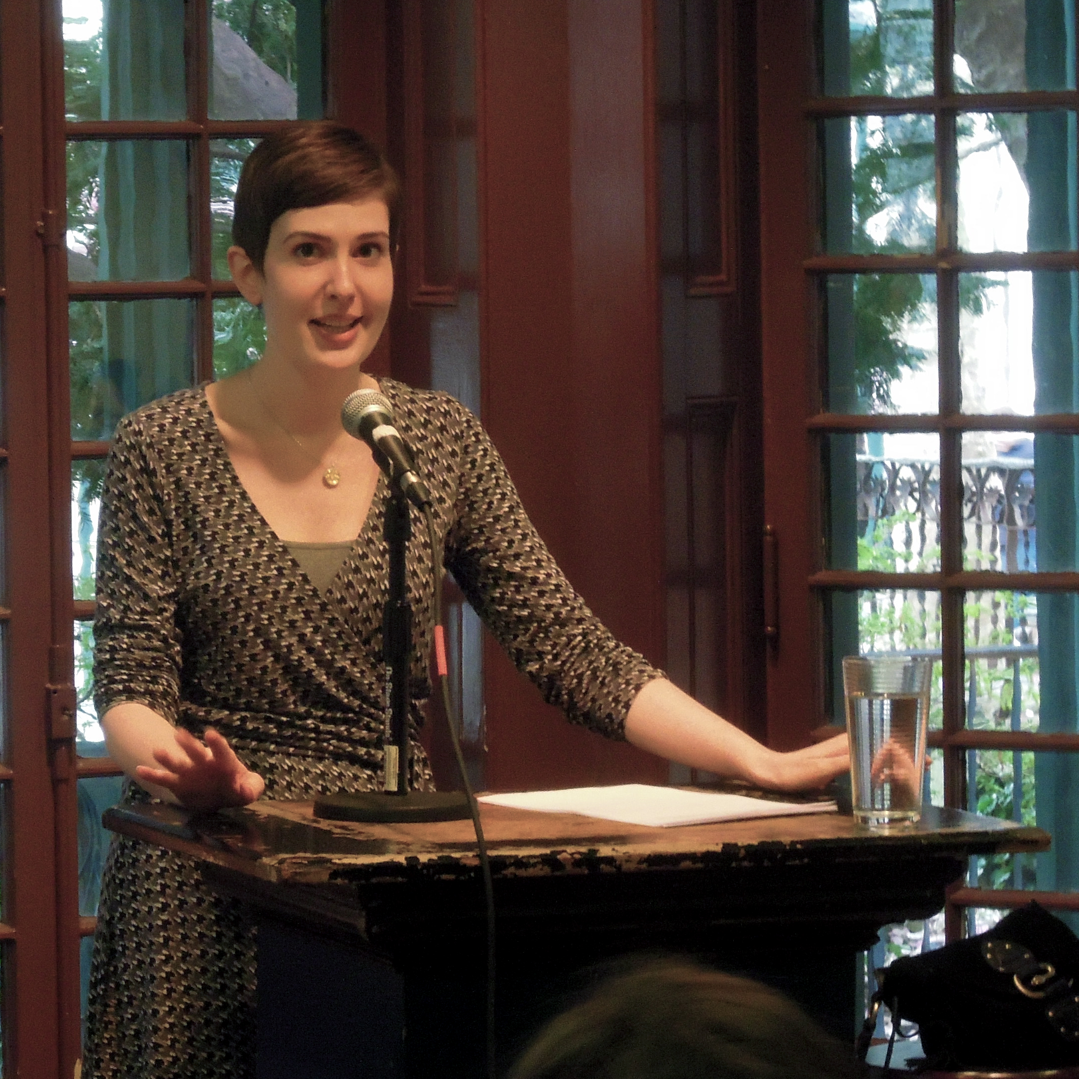 American poet Patricia Lockwood speaks at a University of Pennsylvania event hosted by Kelly Writers House to mark the launch of literary blog Twit Crit.